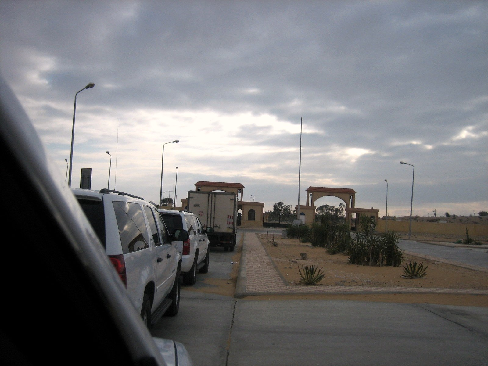 On the Egyptian side of the border waiting to cross into Israel. (Those gates). Nitzana Border Crossing